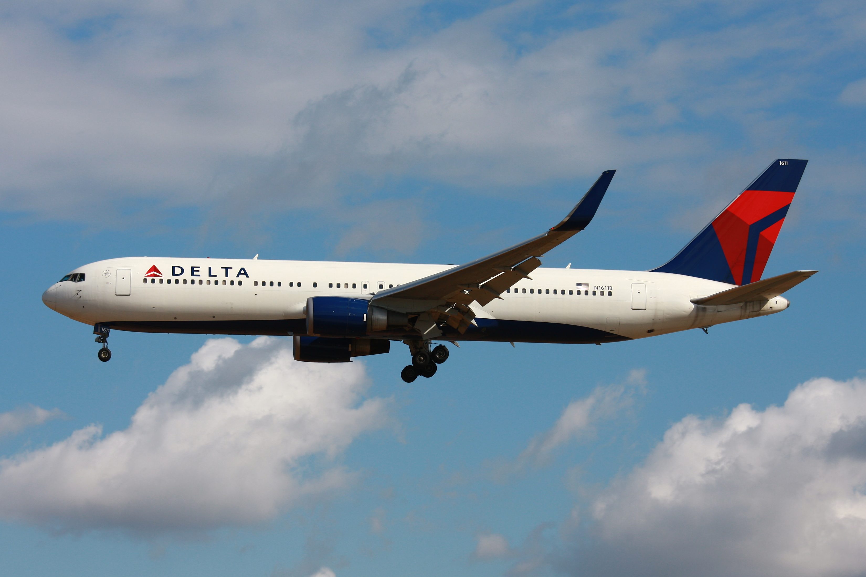 An Boeing 767-300 of Delta Air Lines landing at Frankfurt Airport